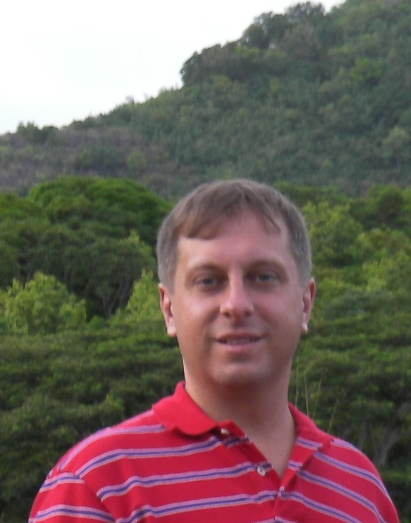 Photograph of Prof. Marin Soljacic (Massachusetts Institute of Technology) in the summer of 2011. Personal photo provided via email for upload.